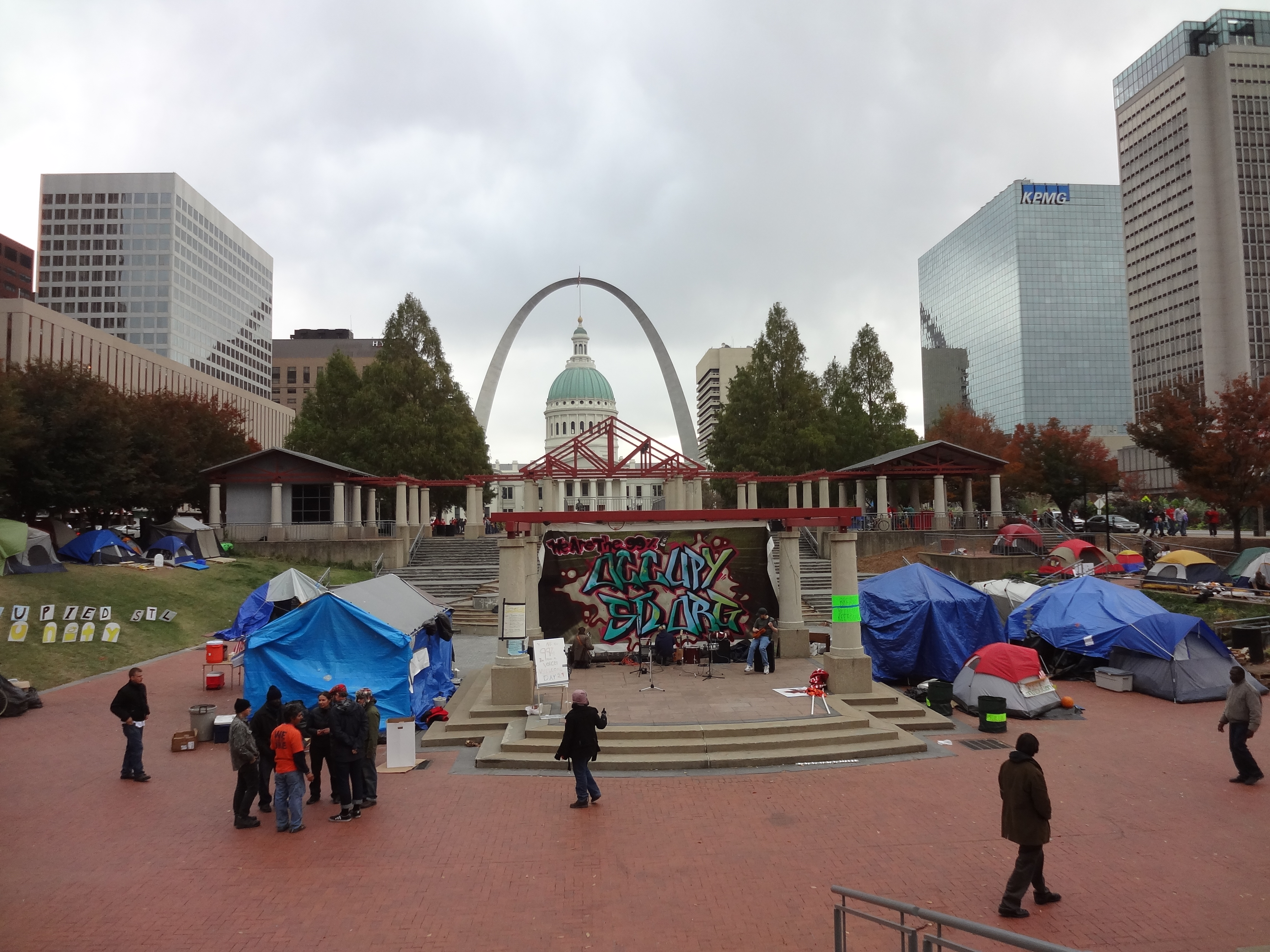 Occupy St. Louis on October 16, 2011, Missouri, United States